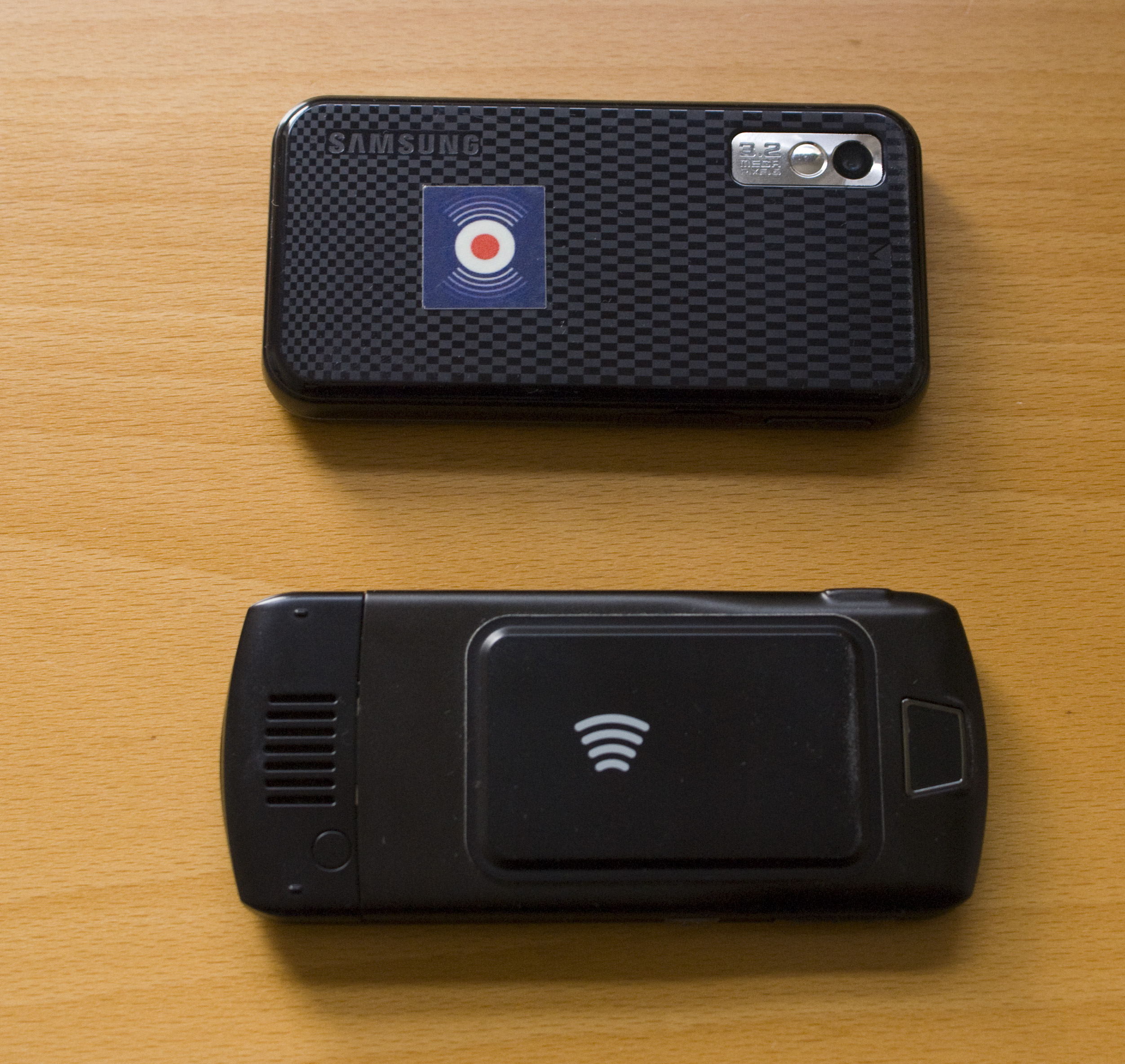 Two NFC enabled mobile phones. Samsung GT-S5230N Star NFC Motorola SLVR L7